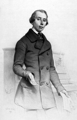 French opera singer Sainte-Foy (1817-1877) by Alphonse-Léon Noël (1807-1884).